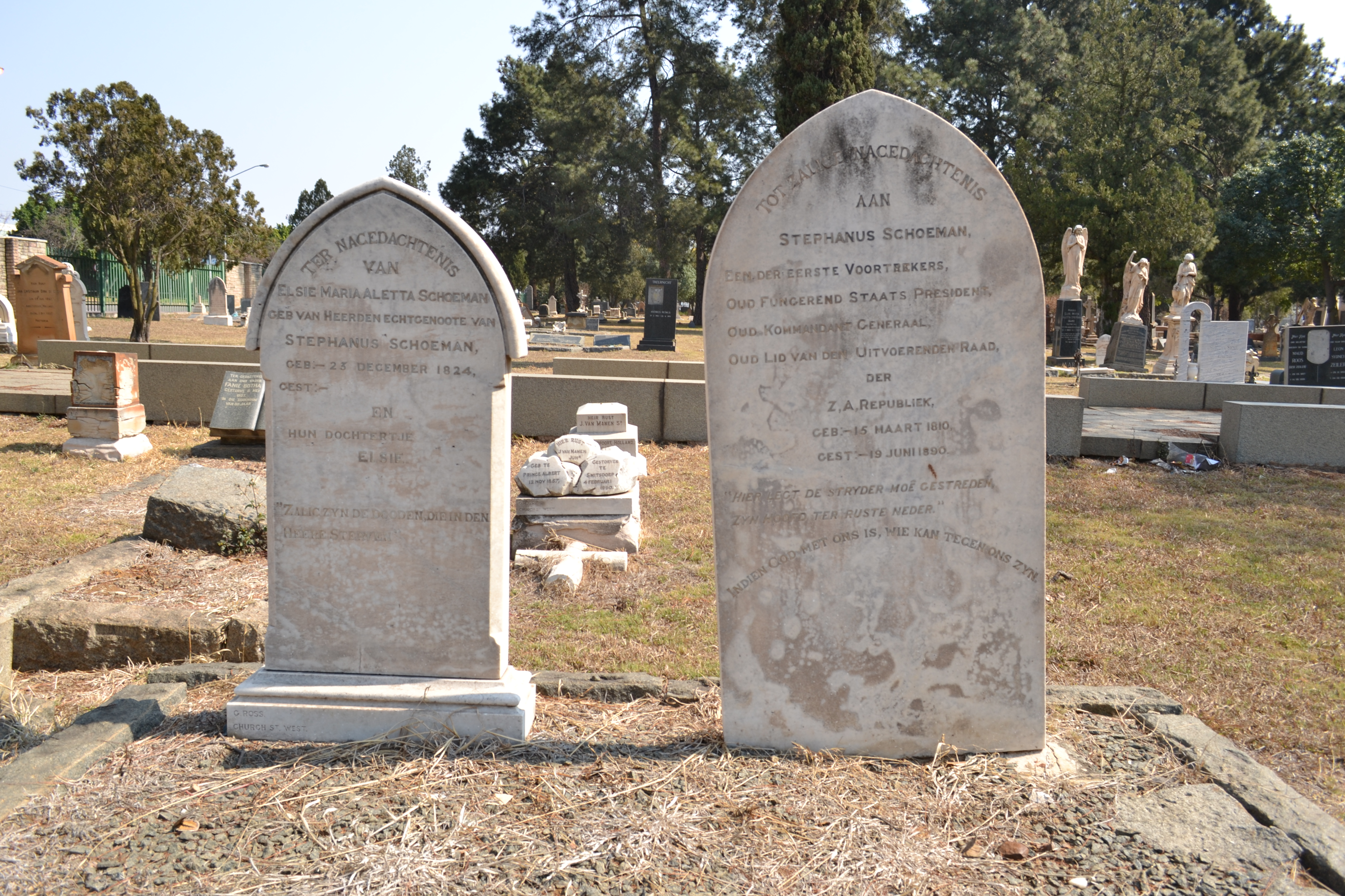 Stephanus Schoeman 2de President van die Zuid-Afrikaans Church Street Cemetery in Pretoria This media shows a South African Protected Site with SAHRA file reference 000000.